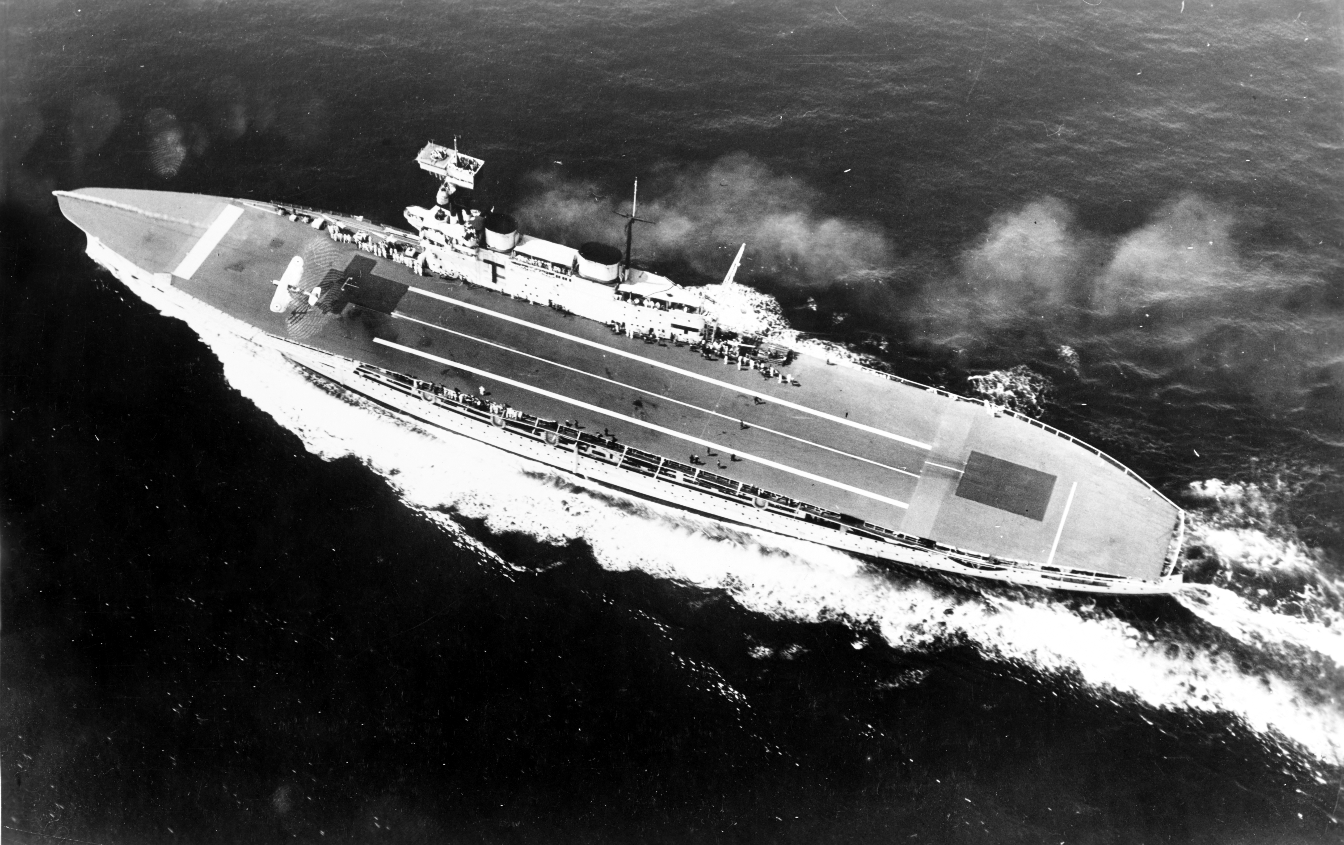 Aerial photograph of British Royal Navy aircraft carrier HMS Eagle with the Prince of Wales' plane being launched, off Copacabana, Rio de Janeiro (Brazil), April 1931. From January to April 1931, the Prince of Wales and his brother, Prince George, travelled 29,000 km on a tour of South America.